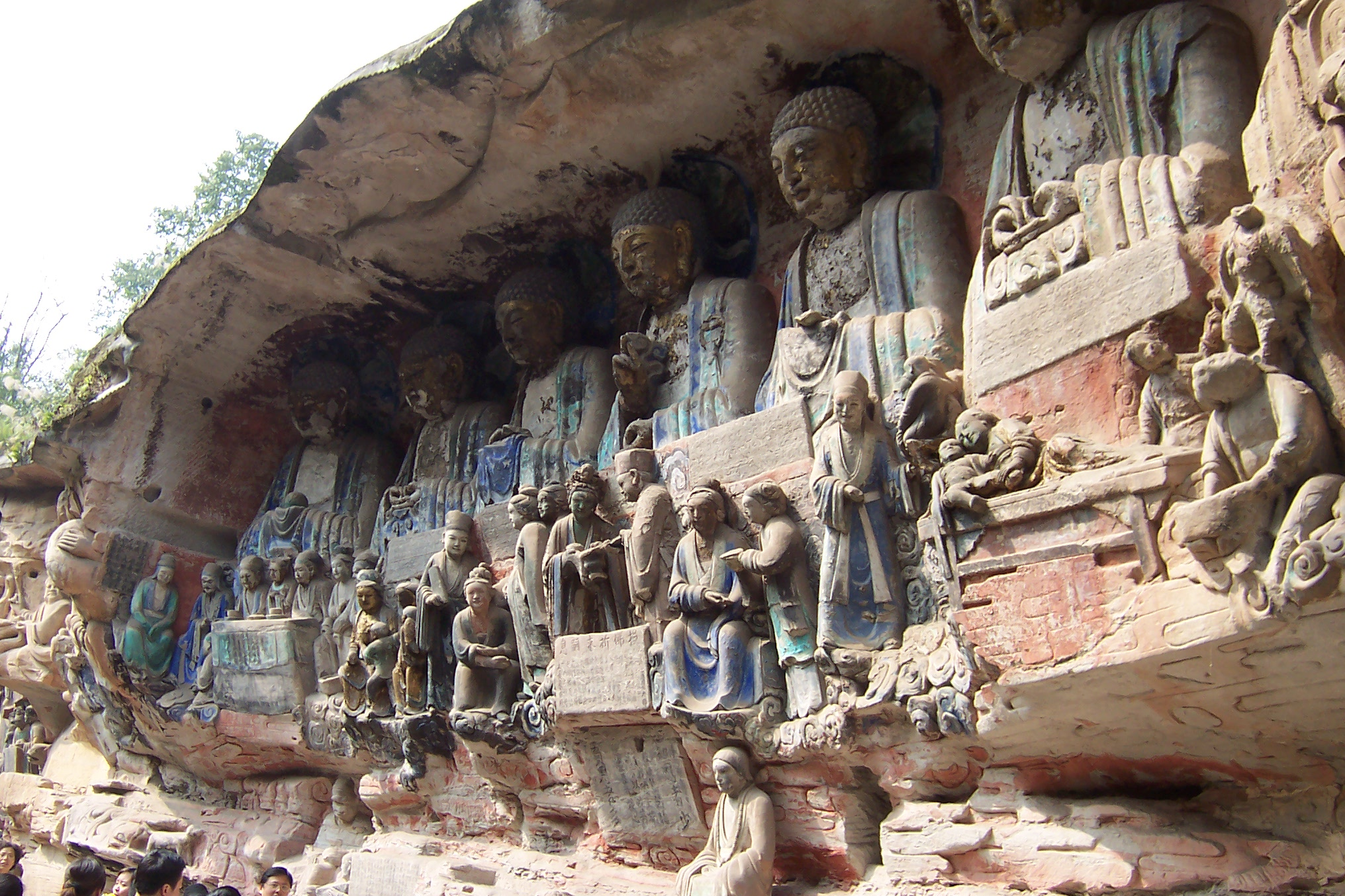 Dazu Rock Carvings, Bao Ding buddhas